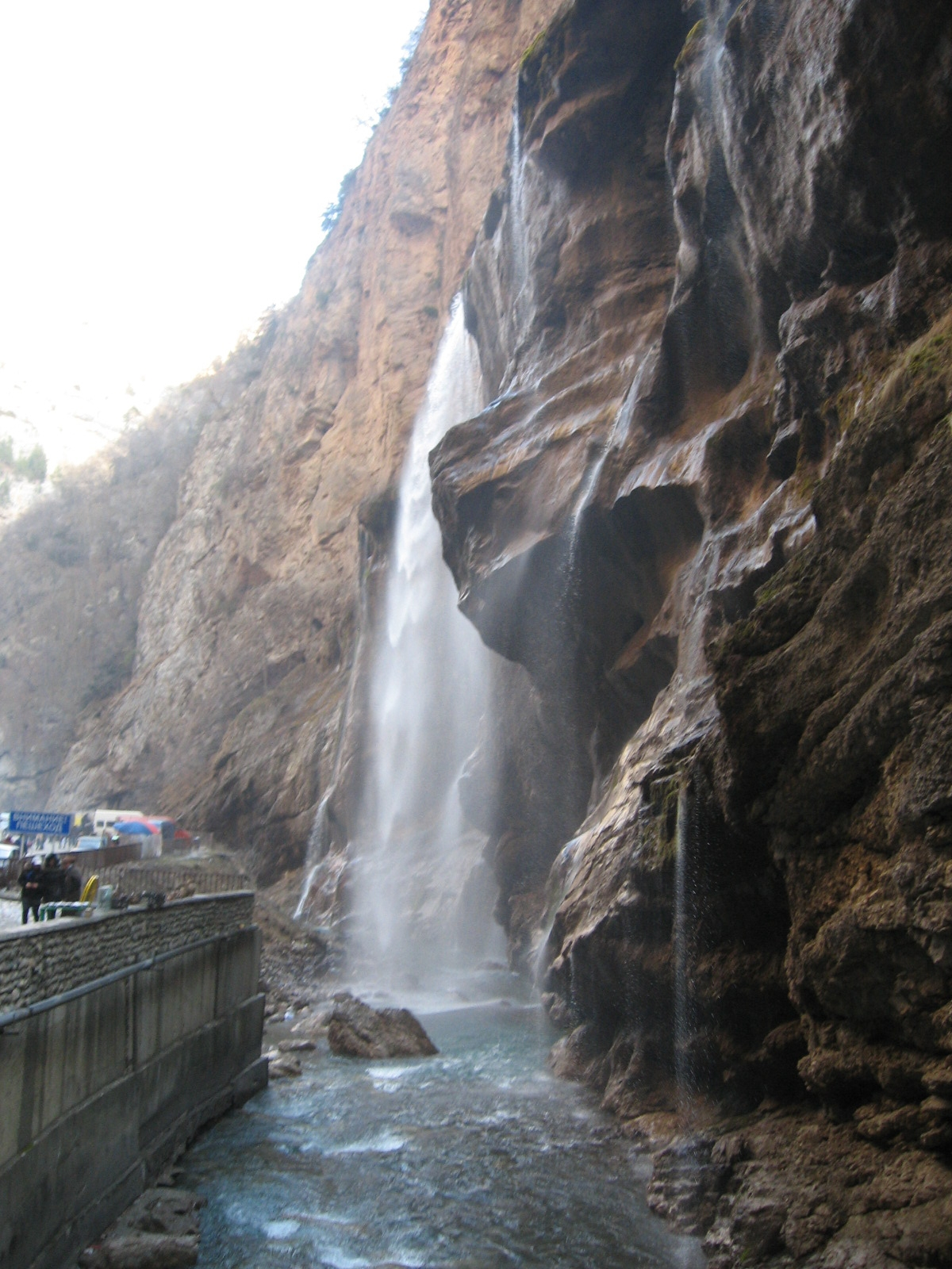 Chegem Waterfall (Chegem-River, Kabardino-Balkaria, Russian Federation)